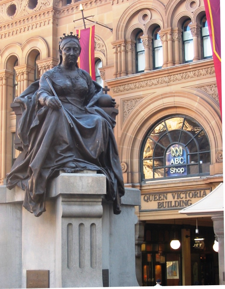 The statue of Queen Victoria, sculpted by John Hughes, outside the Queen Victoria Building in Sydney. This statue originally stood outside Leinster House in Ireland and was given to the people of Sydney by the Government of the Republic of Ireland